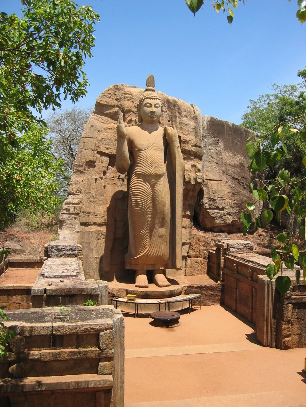 Aukana - The beautiful statue of the buddha in Sri Lanka.